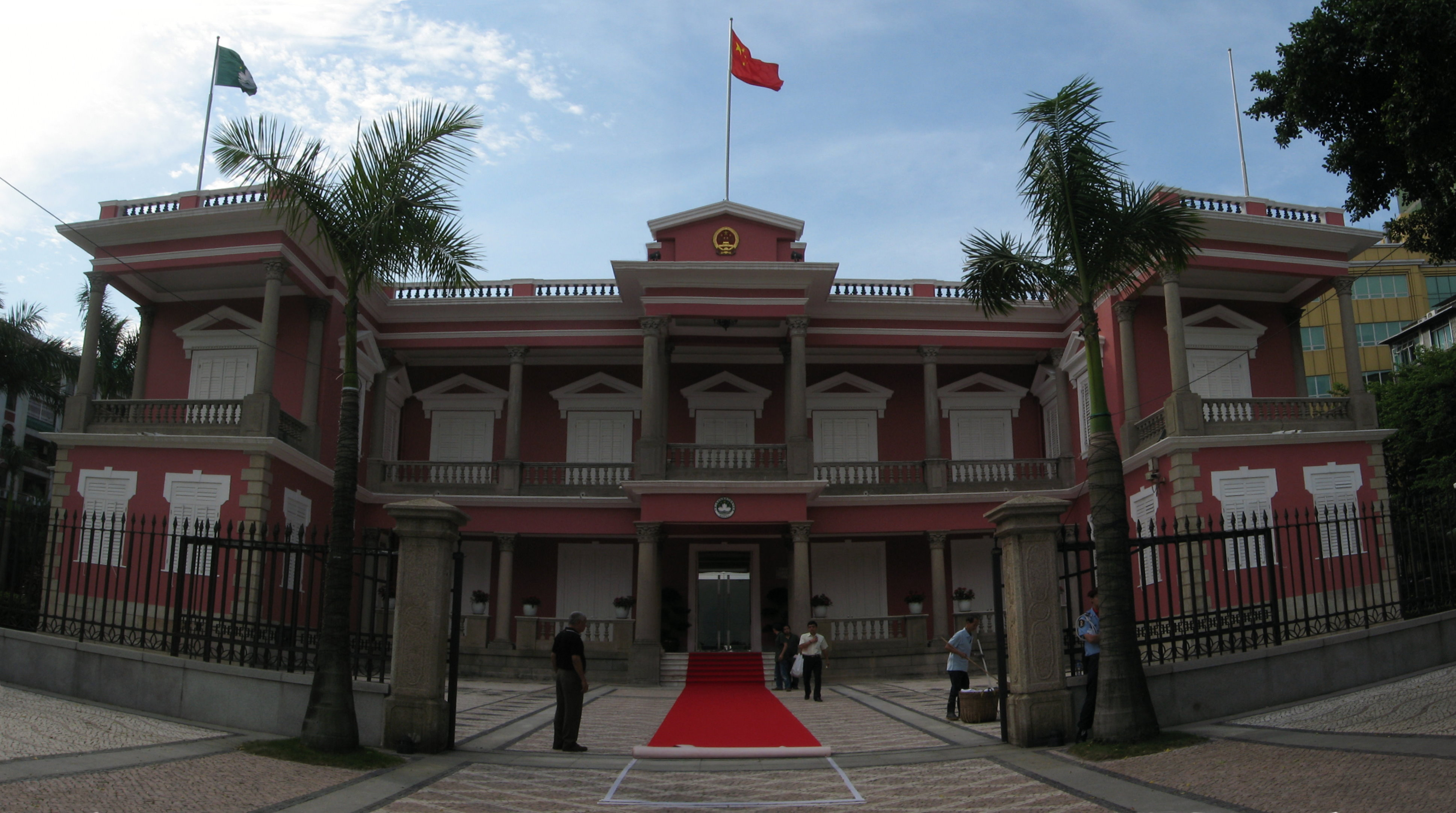 Government house,Macau China